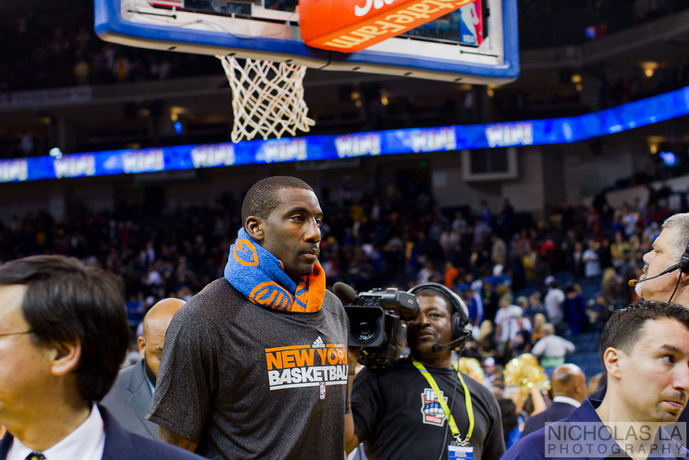 Amar'e Stoudemire with the New York Knicks